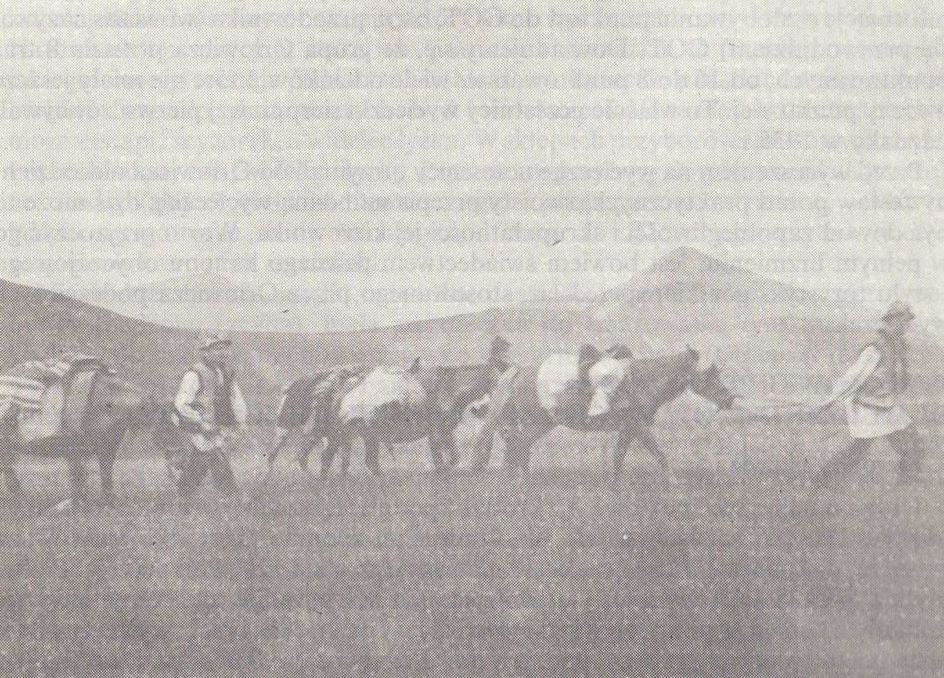 Hoverla 2058 m (right) and Petros 2026 m (left)